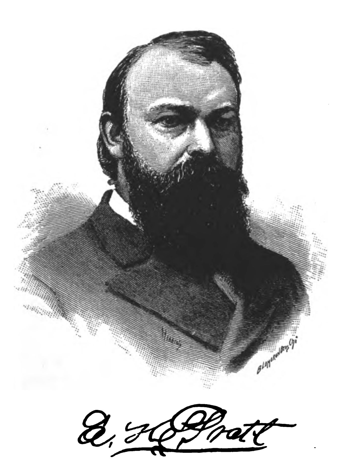 Edwin Hartley Pratt, founder of orificial surgery, from Alfred Theodore Andreas' History of Chicago: From the fire of 1871 until 1885, published in 1886.